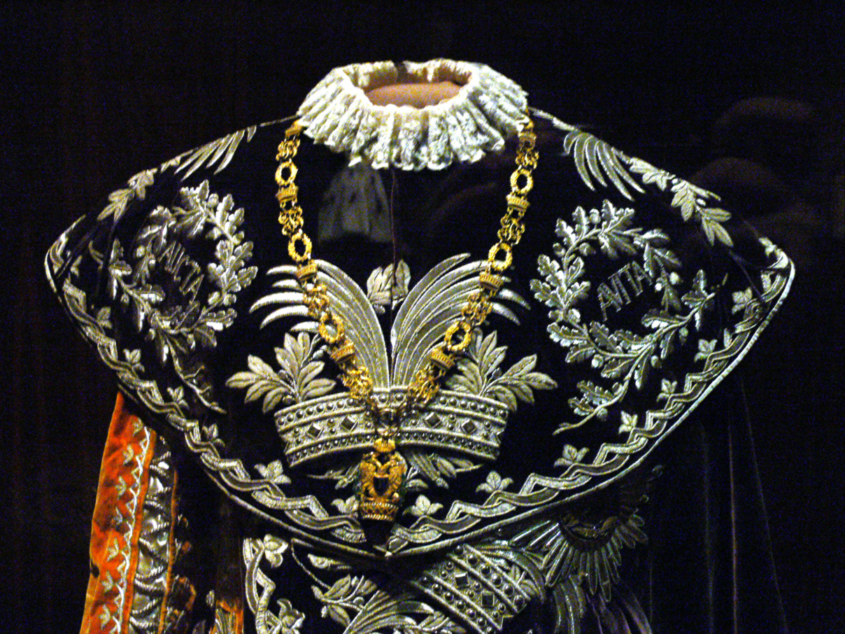 Regalia of the Austrian Order of the Iron Crown, Secular Treasury Vienna.